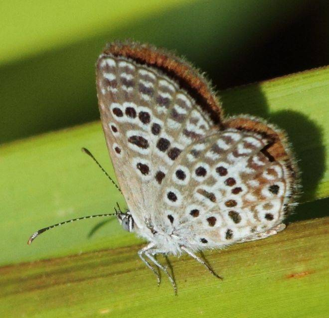 Rayed blue (Actizera lucida), near Ntingwe, KwaZulu-Natal.